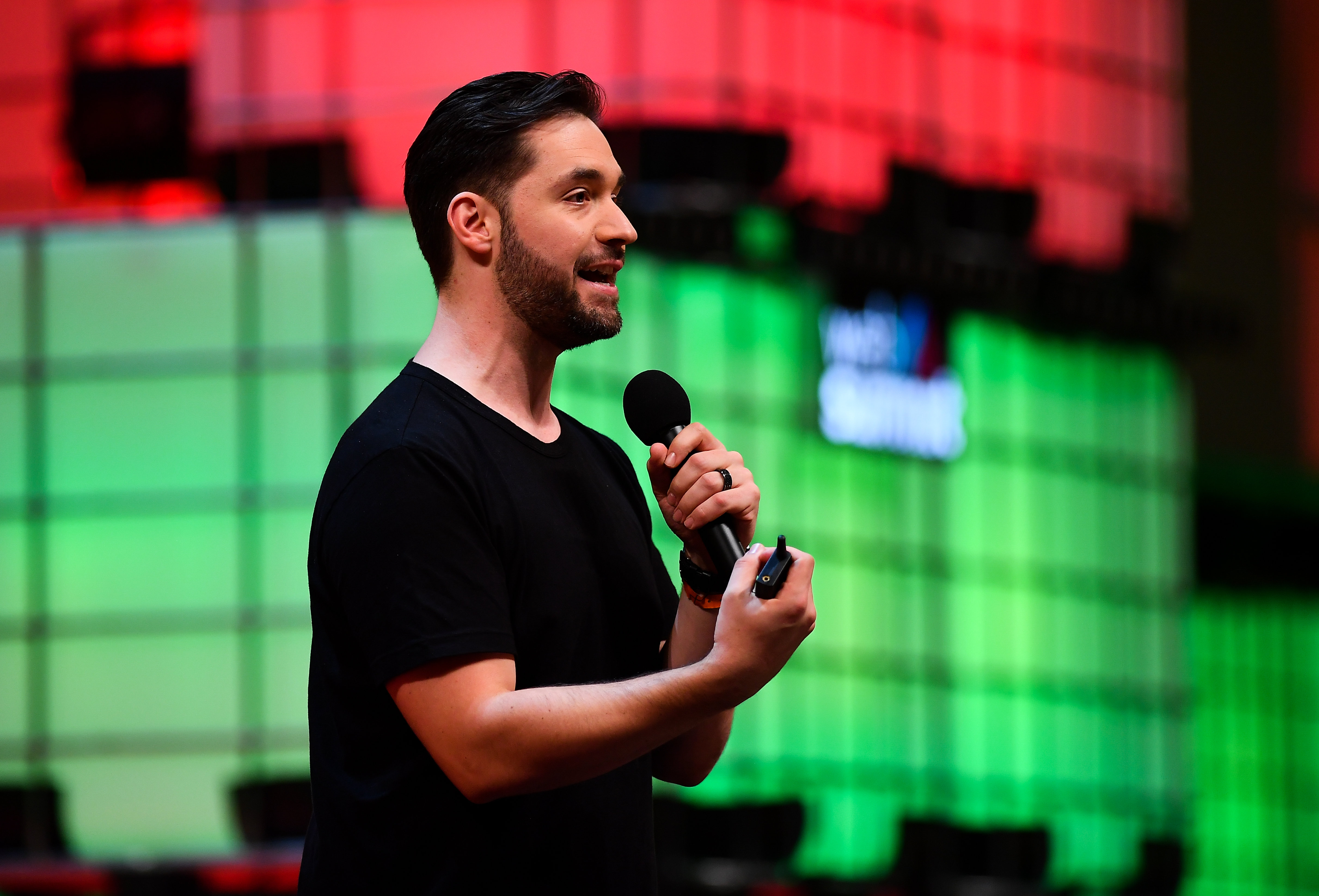 6 November 2018; Alexis Ohanian, Reddit on Centre Stage during the opening day of Web Summit 2018 at the Altice Arena in Lisbon, Portugal. Photo by Seb Daly/Web Summit via Sportsfile